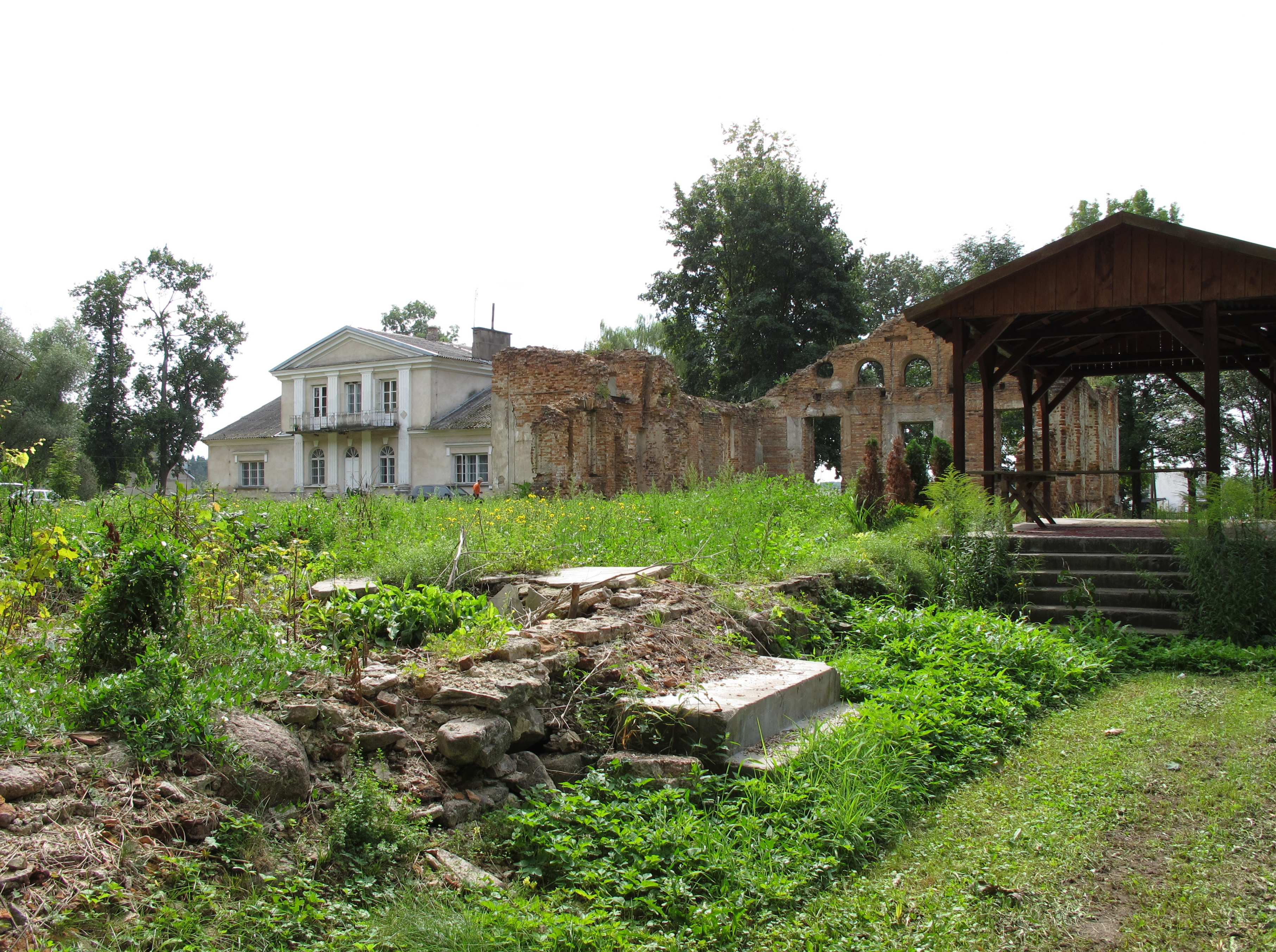 Ruins of the dwór in Hieronimowo, gmina Michałowo, podlaskie, Poland; outbuilding in the background